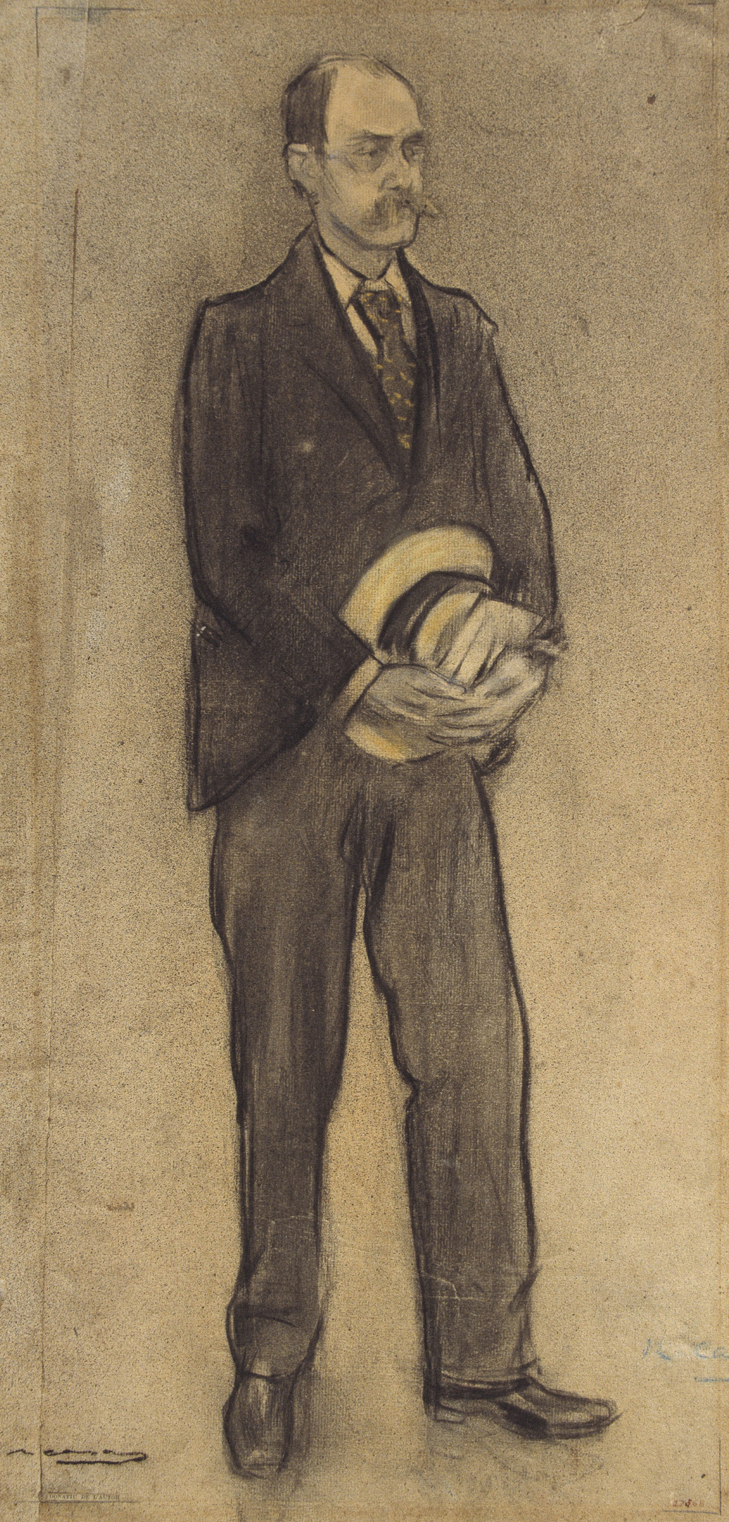 Portrait by Ramon Casas conserved at MNAC in Barcelona. Imagen 063